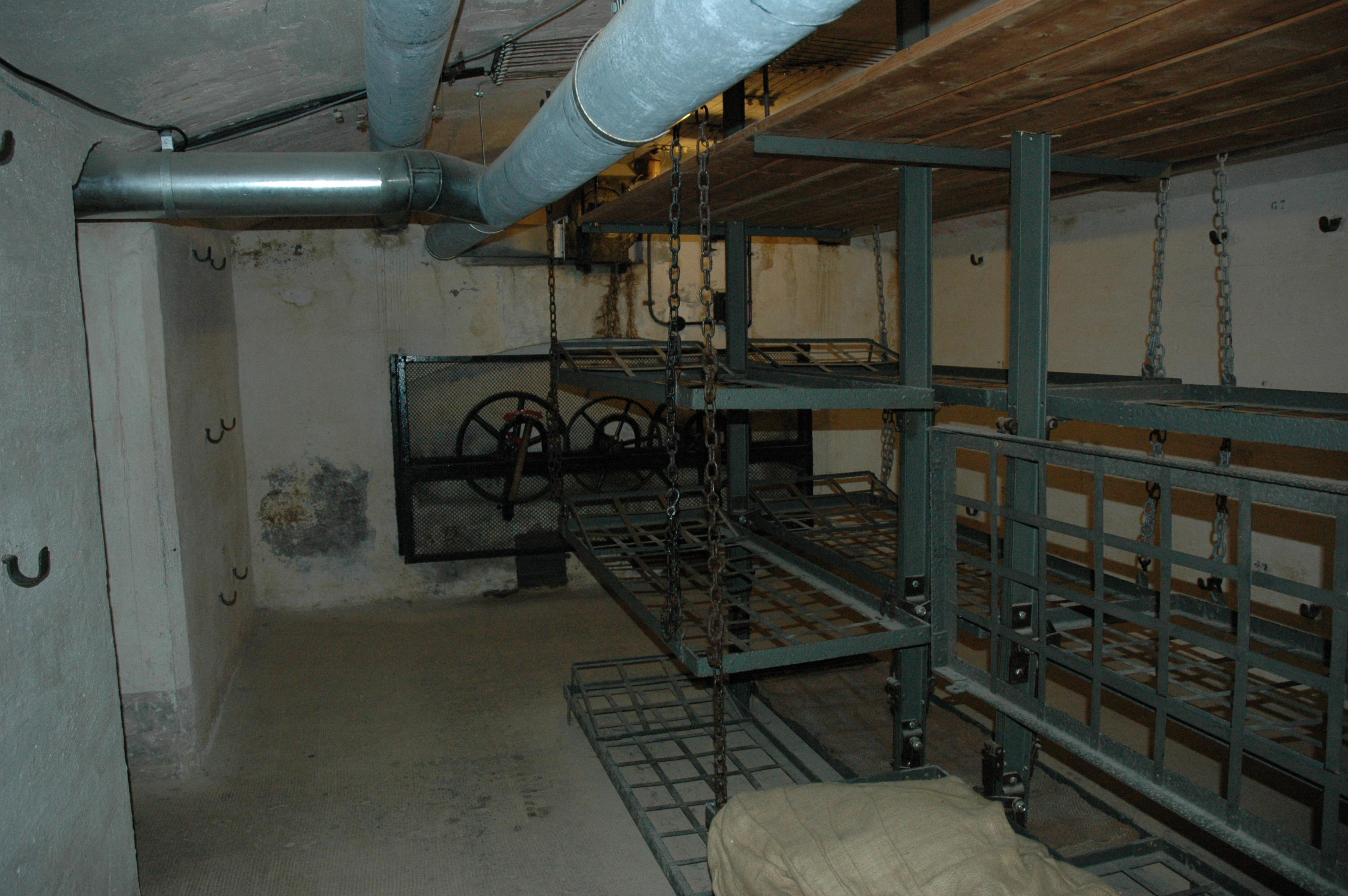 Mutzig fort